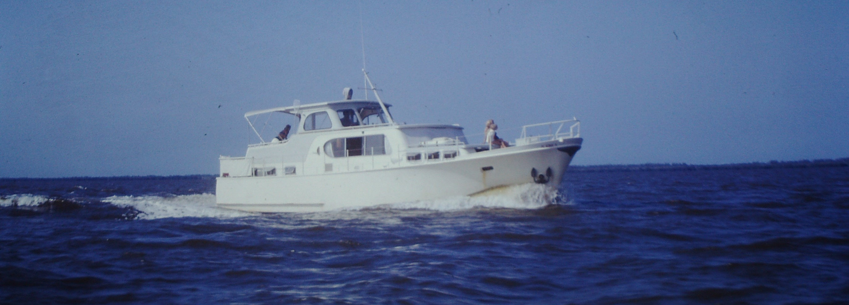 Max Moody Jr. operating his boat on the St. Johns River in 1967.